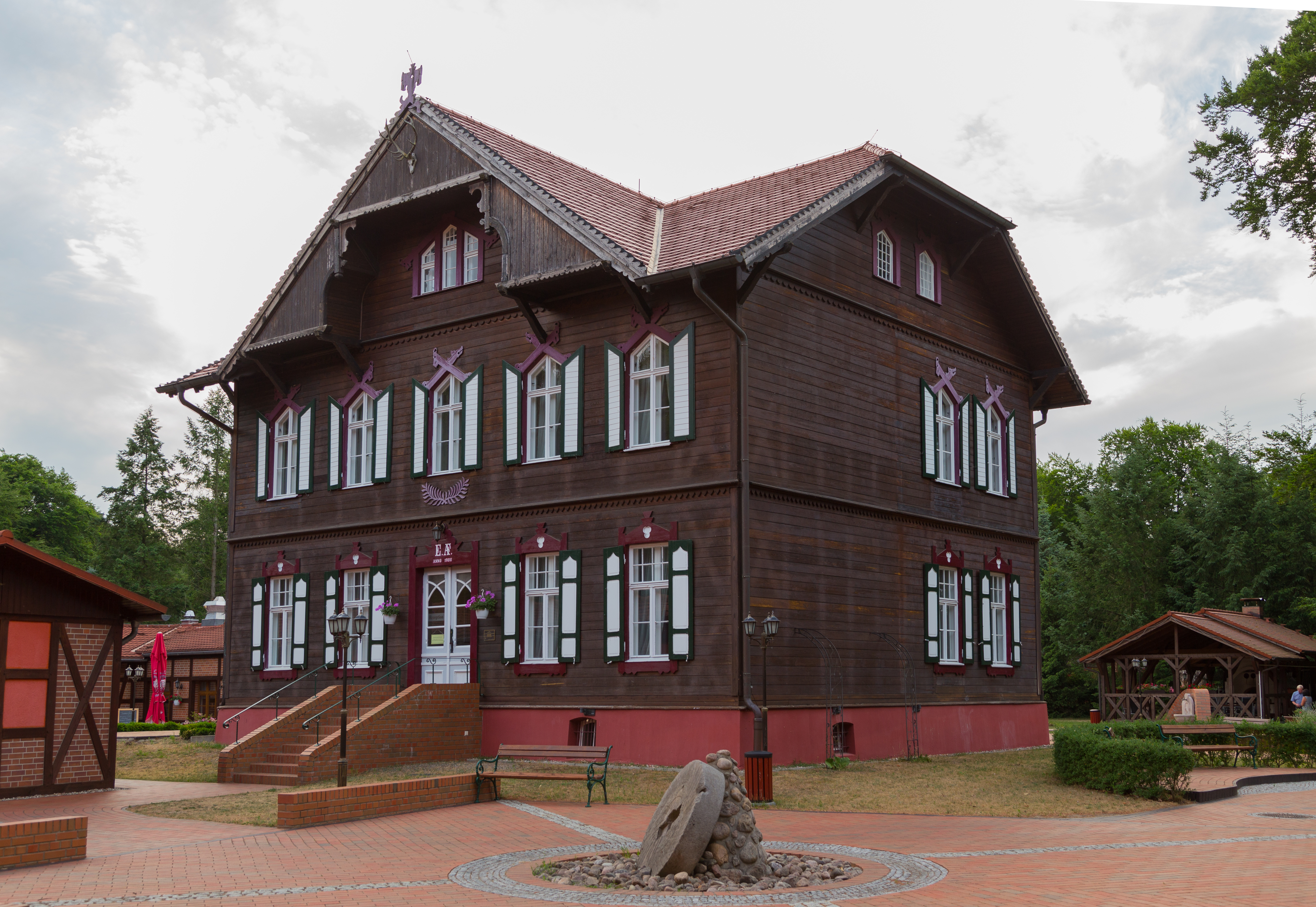 Waldsee Hunting Castle (Jagdschloss Waldsee) in Waldsee, district of Feldberger Seenlandschaft, Landkreis Mecklenburgische Seenplatte, Mecklenburg-Vorpommern, Germany. Picture taken with permission.